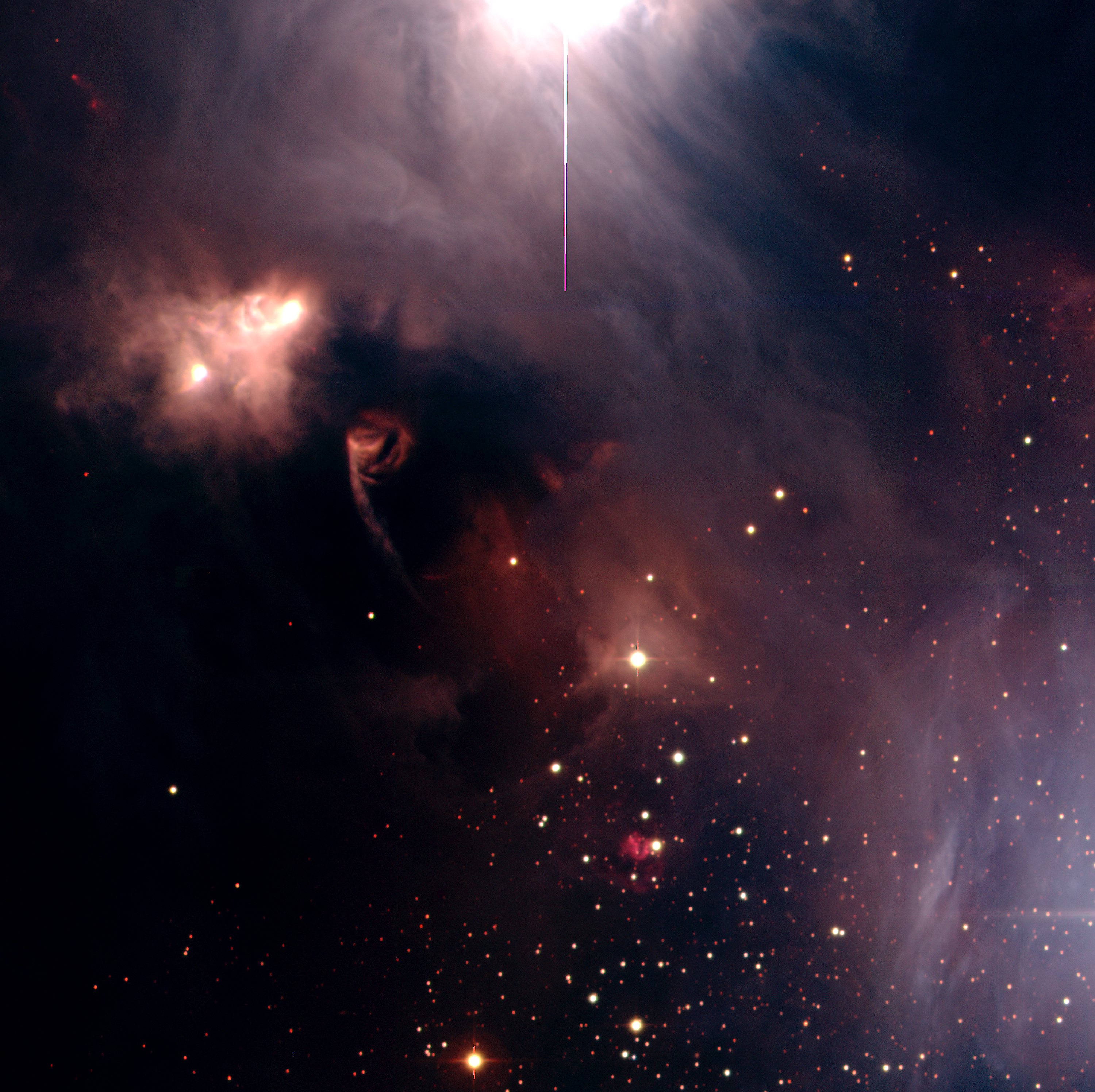 This is a colour photo of a small area of about 12 x 12 arcmin 2 , near the centre of the R Coronae Australis region in the southern Milky Way, obtained with the Wide Field Imager (WFI) (camera) at the 2.2-m MPG/ESO Telescope on La Silla (Chile). It is based on a series of CCD exposures through optical B-, V- and R-filters, here rendered as blue, green and red, respectively. The sky field shown measures approx. 33.7 x 31.9 arcmin 2 (about the diameter of the full moon). . North is up and East is left.